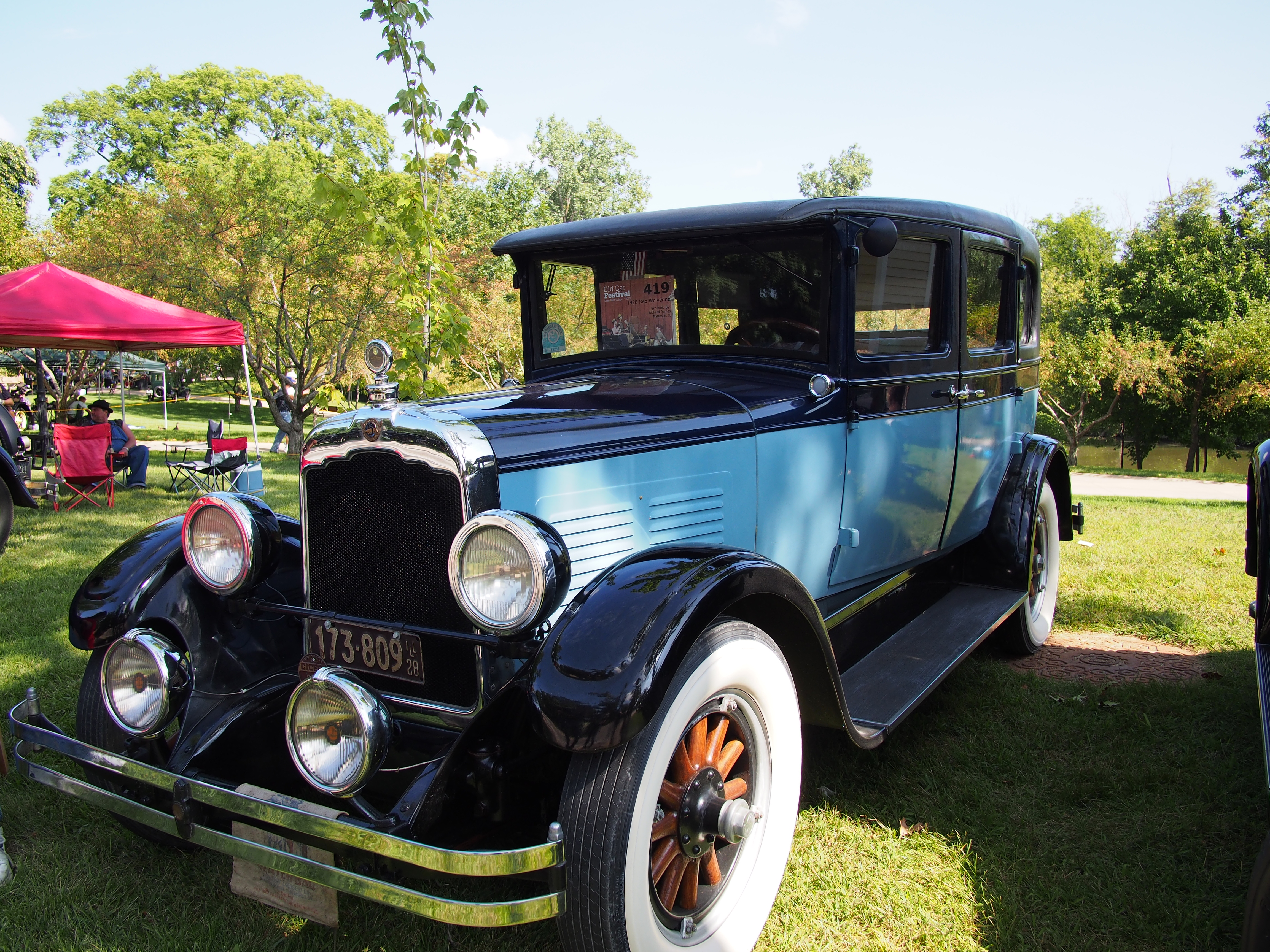 1928 REO Wolverine, entry #419